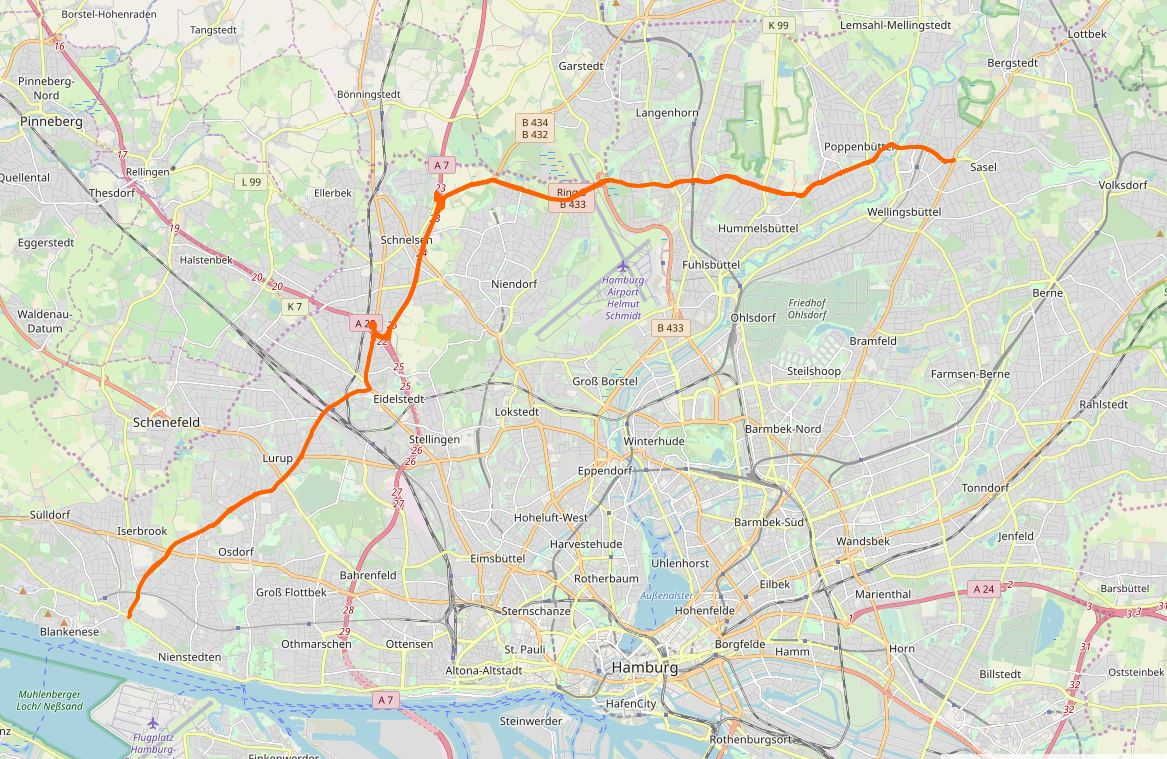 Ring 3 in Hamburg